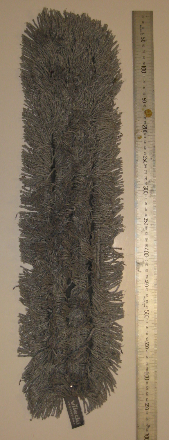 Mop for wet or dry use, longer open end yarn, velcro back, 60 cm